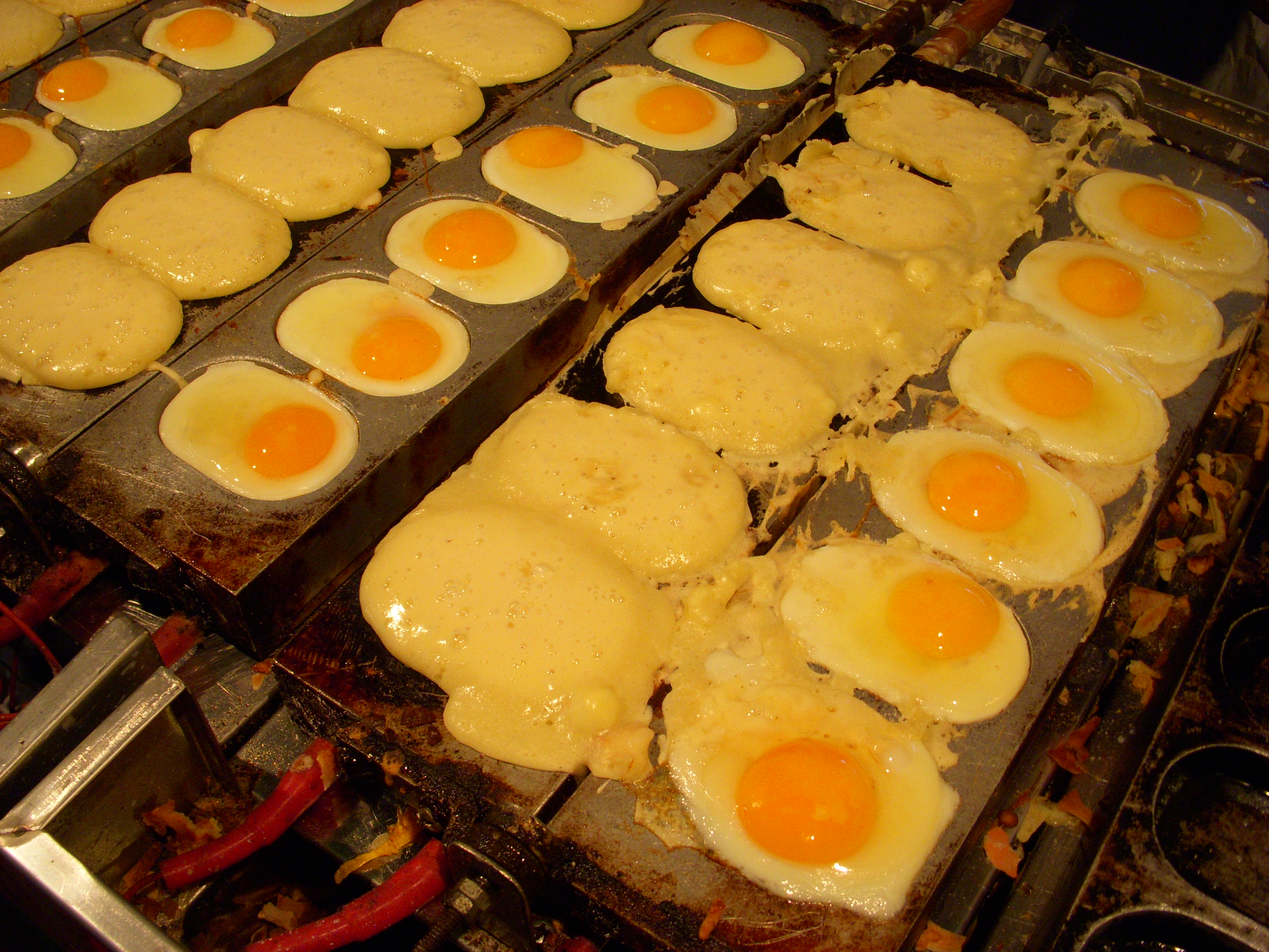 Gyeoranbbang, a Korean snack topped with an egg